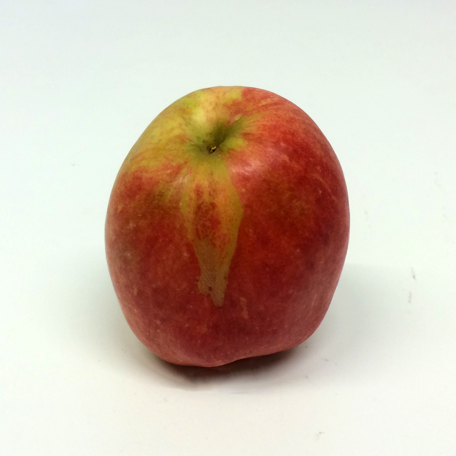 Apple of the cultivar Melon, photographed in conjunction with the Apple Festival at Nordiska museet, Stockholm, Sweden in September 2014.